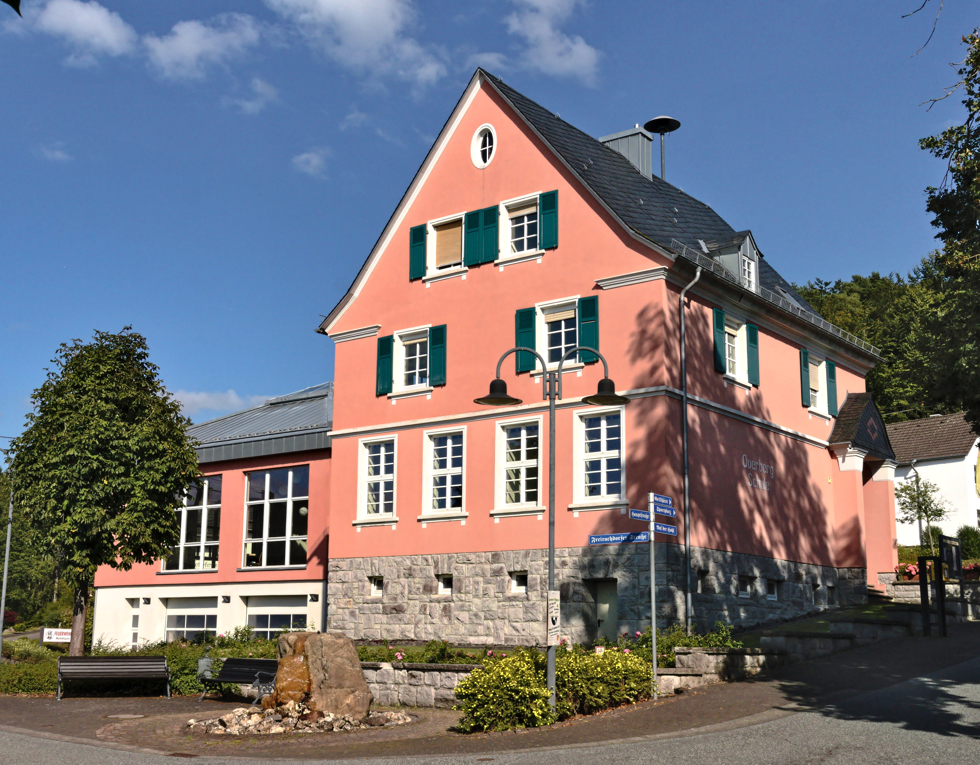 Overbergschule. Former school and current townhall and community centre. Seen from west. Location: Kirchstraße/Hauptstraße, Marienhausen, Landkreis Neuwied, Germany